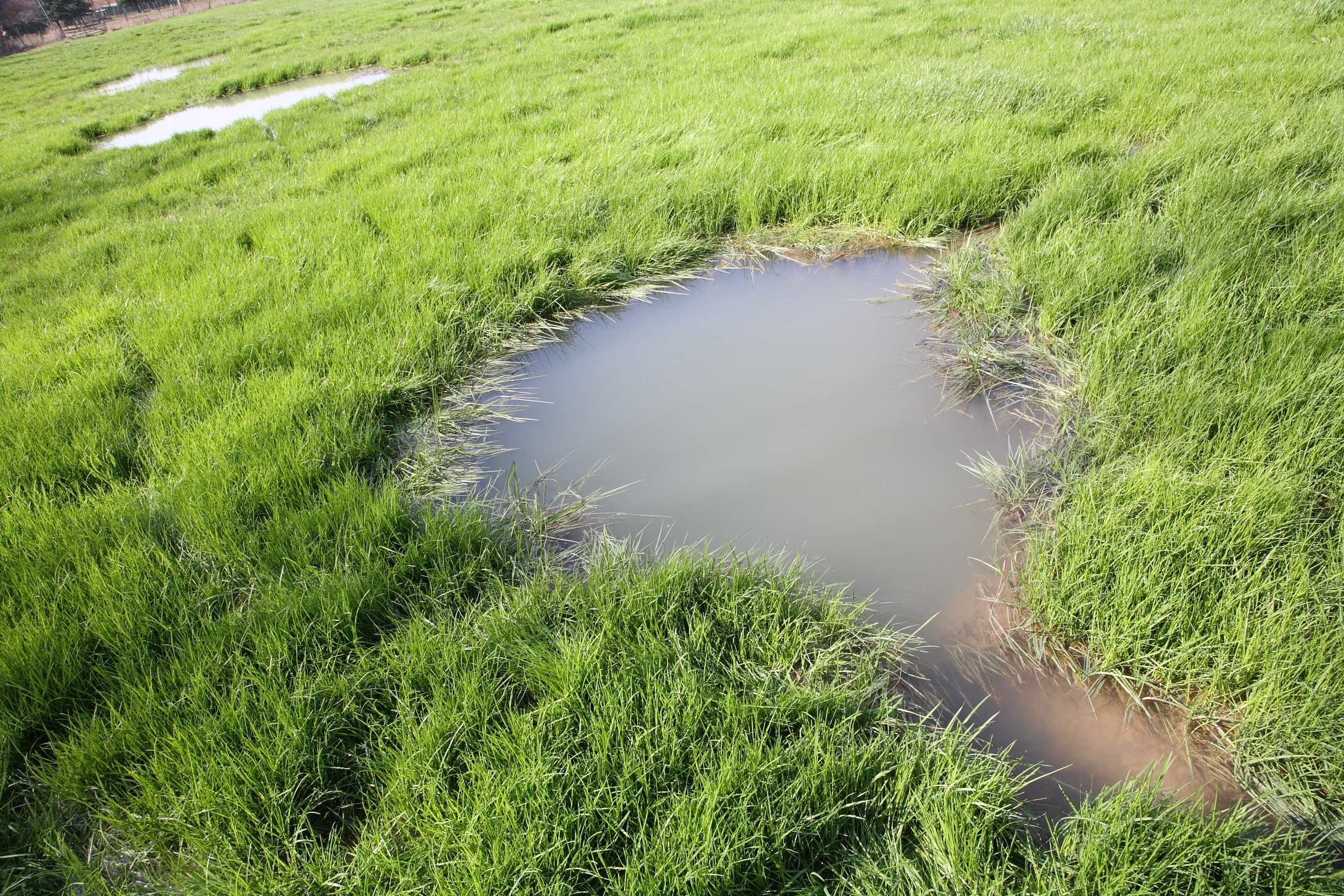 Small karst spring, emerging in grassland only. The spring's unfiltered, clayish, wheathered debris is gradually layering cones with the grass on top.